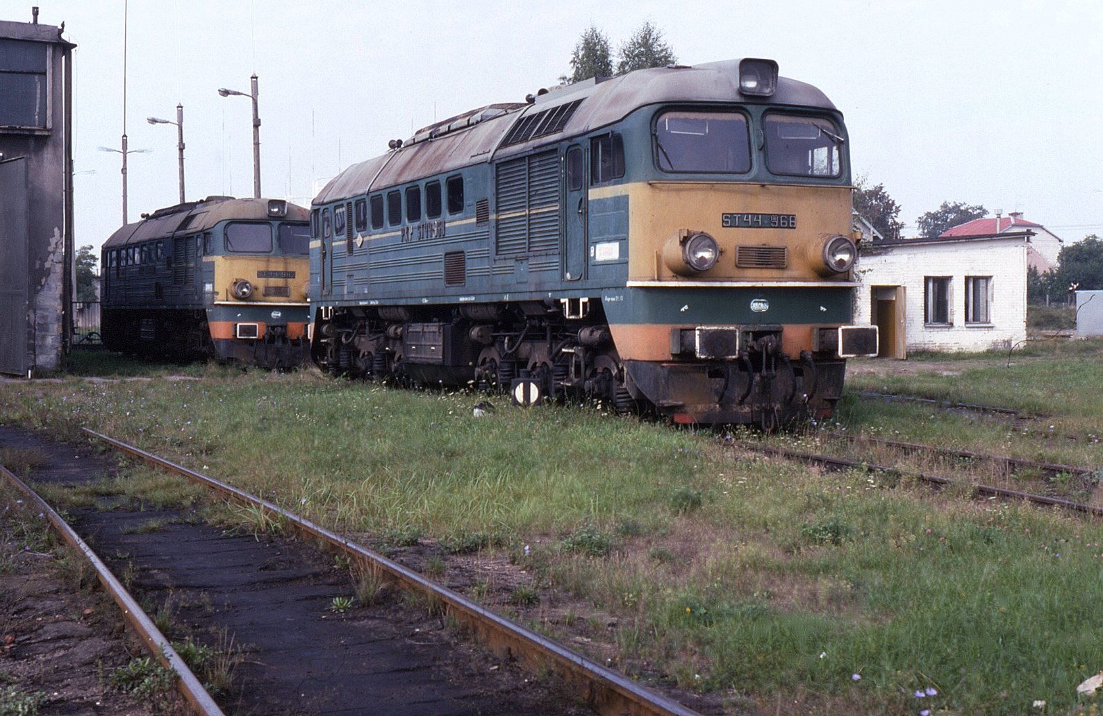 Soviet-built ST44-968 stabled at Ostrołęka depot on 12 September 1995.